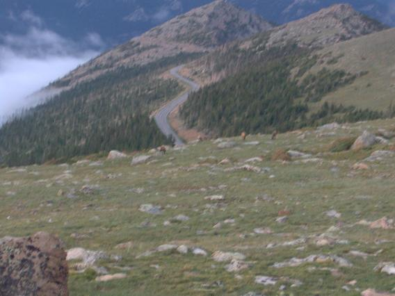 View of Trail Ridge Road from a hill in Rocky Mountain National Park, at an elevation of nearly 11,700 feet.